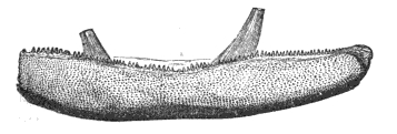 Asterolepis lower jaw portion